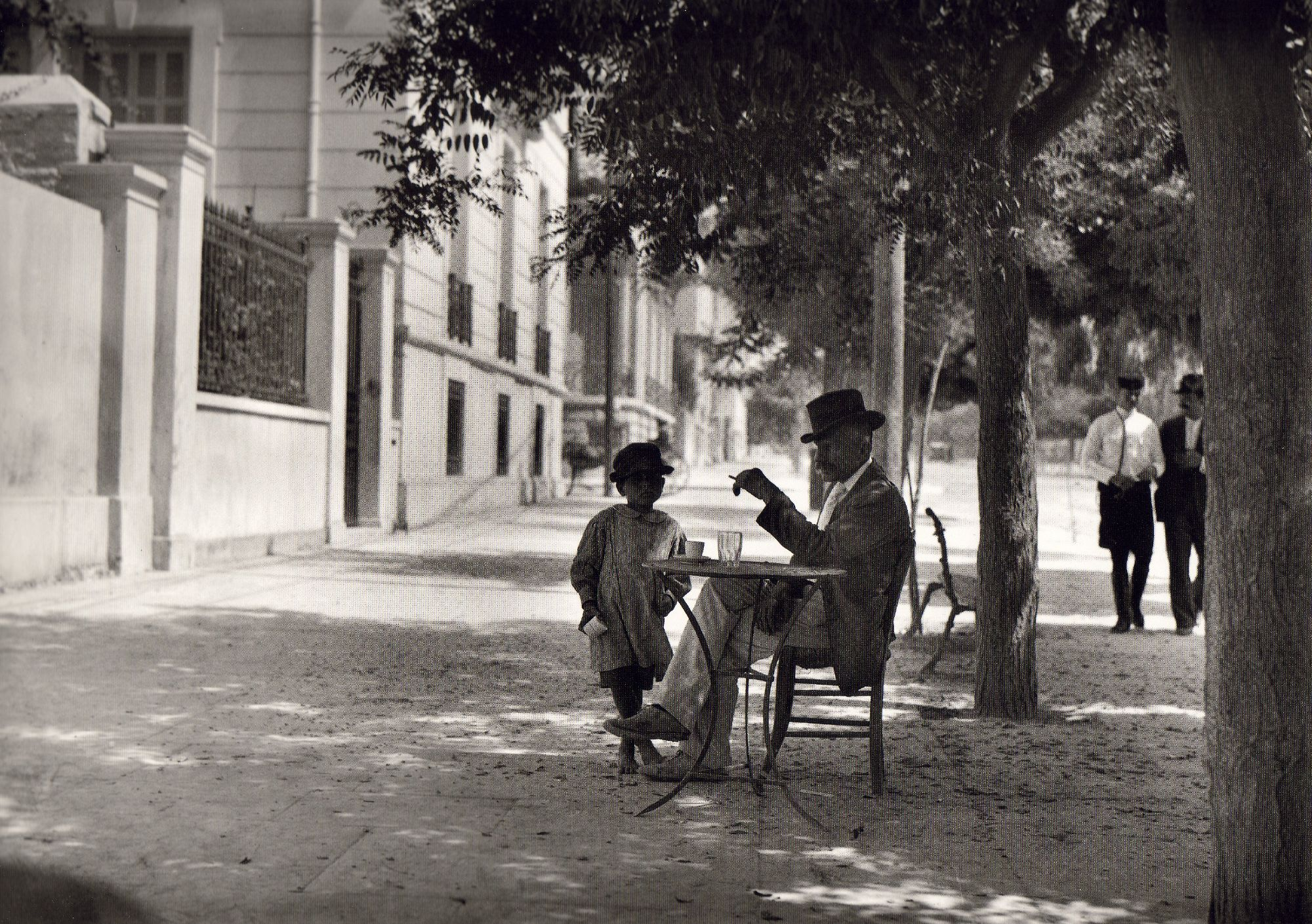 A street in Athens